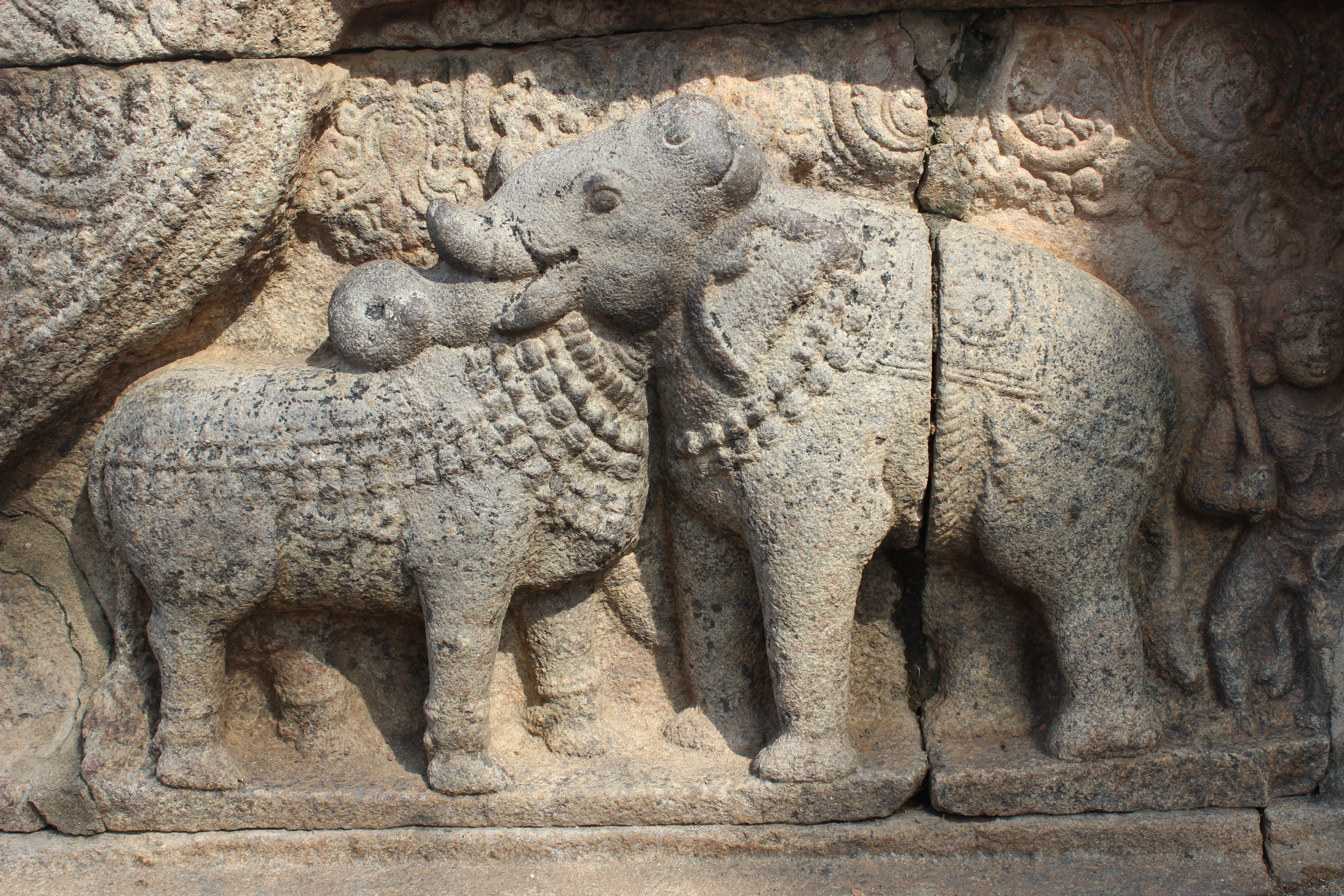 Bull and Elephant statue at Thanjavur Airavatesvara Temple.